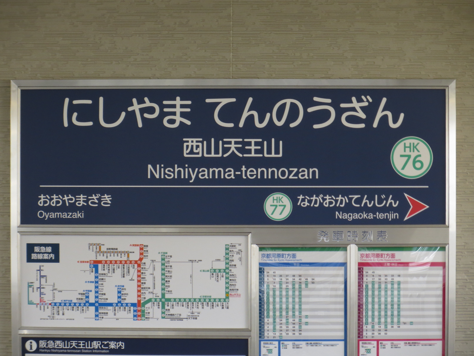 Sign from Nishiyama-tennozan Station (HK76).